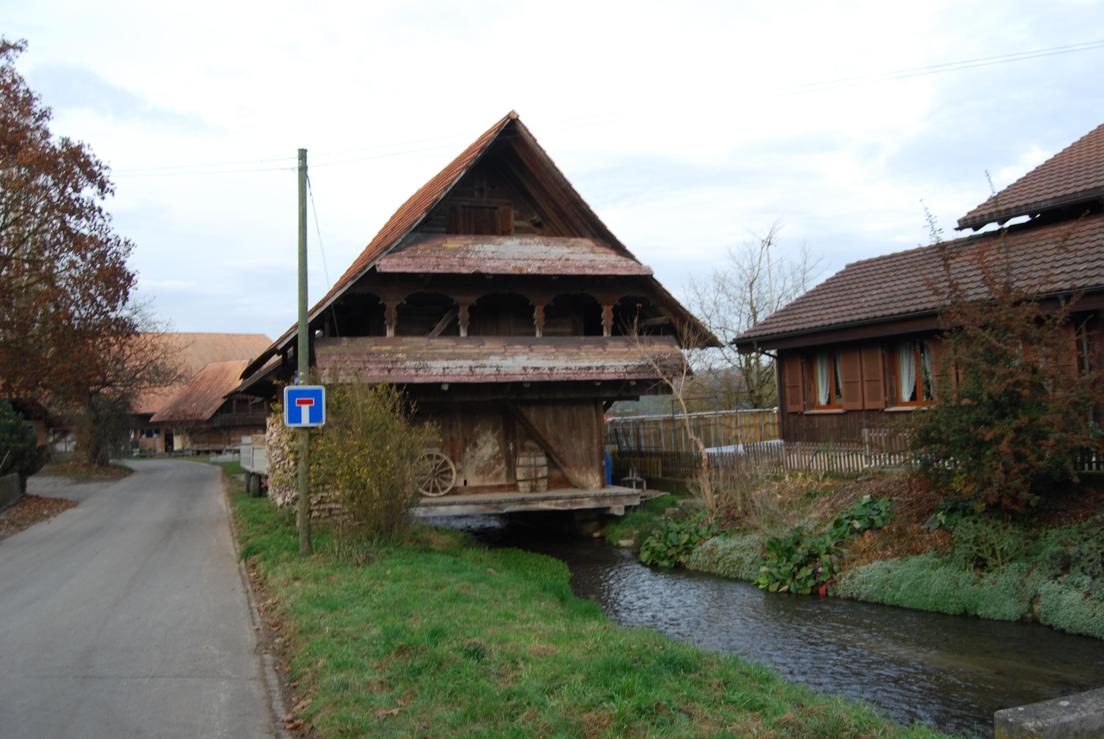 Barn over the river Oesch at Willadingen, canton of Bern, Switzerland